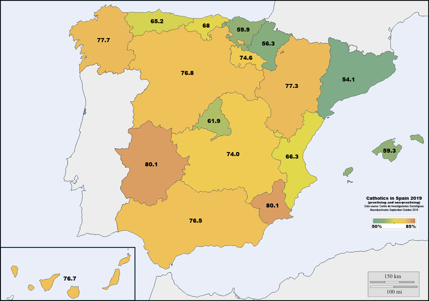 Percentage of practicing and non-practicing Catholics in Spain by autonomous community as of October 2019, according to the Center for Sociological Research's Macrobarómetro Sep/Oct 2019.